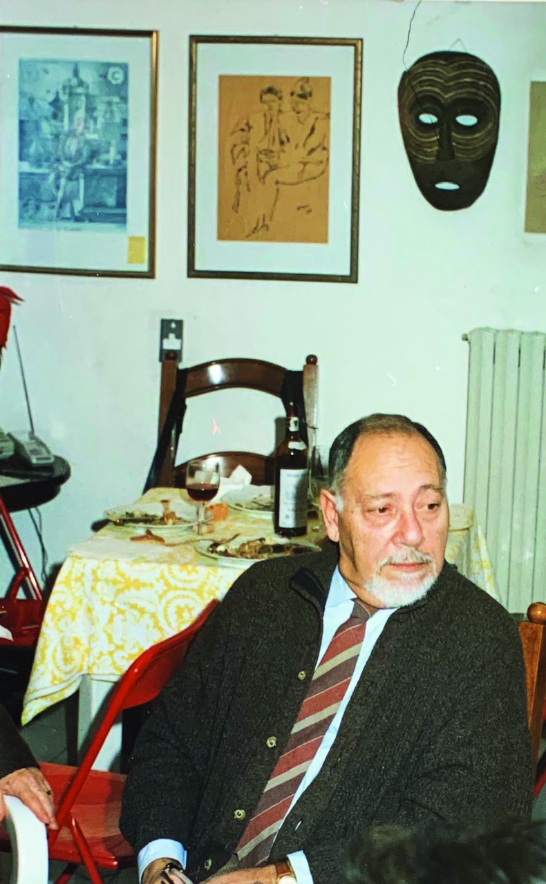 Piero Giangaspro in 1995.